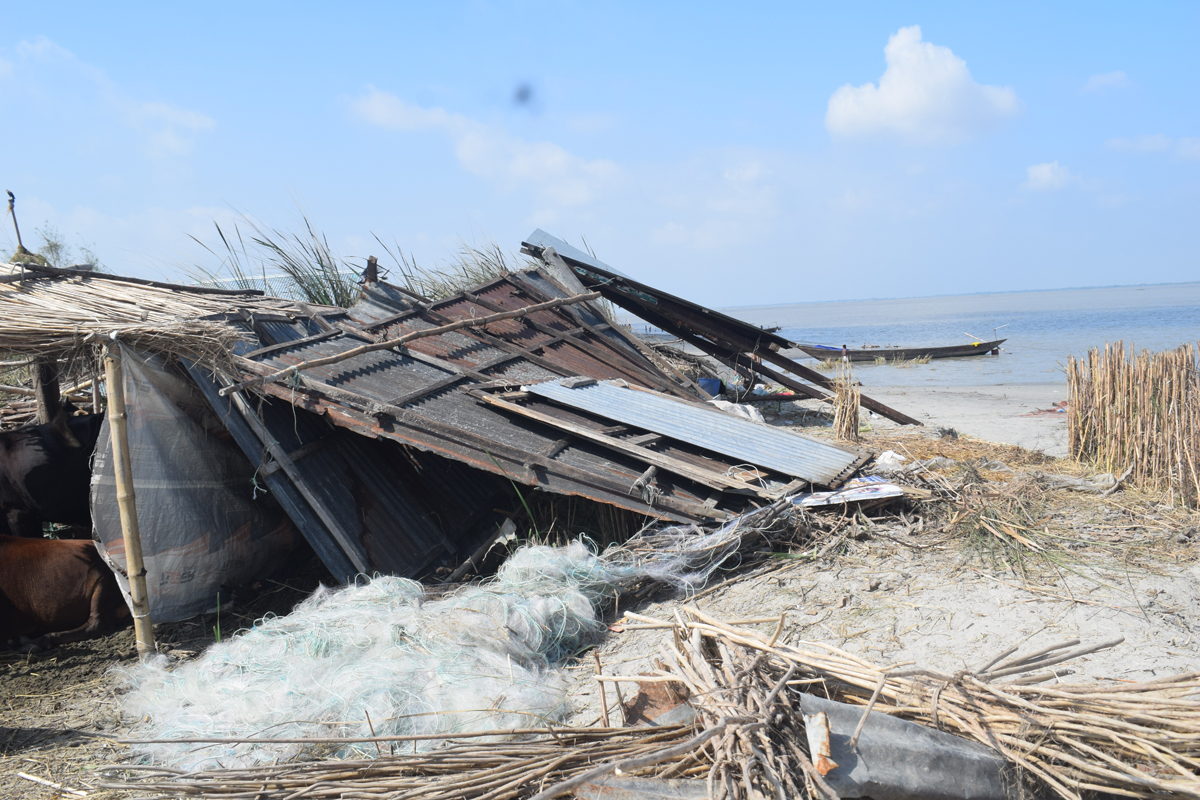 ঘূর্ণিঝড় বুলবুলের আঘাতে ক্ষতিগ্রস্ত বাংলাদেশের চাঁদপুর জেলার রাজরাজেশ্বর চর